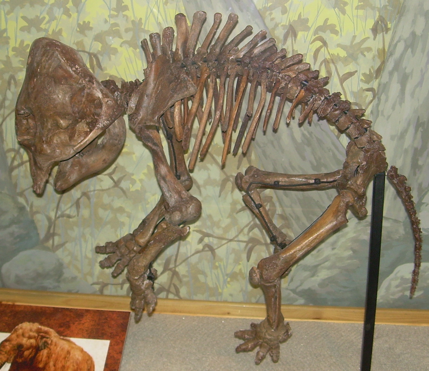 Photograph of a fossil cast of an infant Mammuthus primigenius skeleton taken at the North American Museum of Ancient Life.